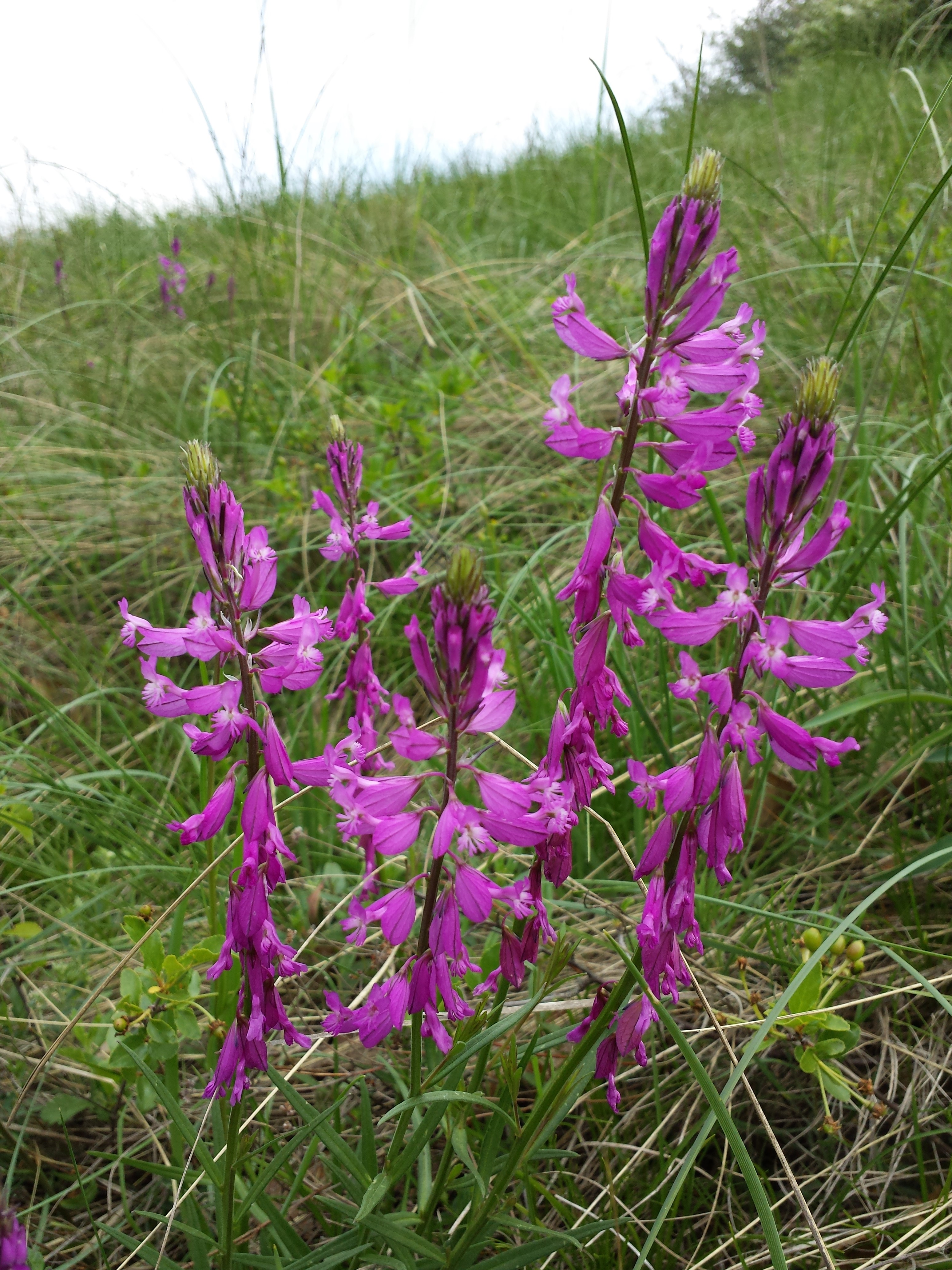 Habitus Taxon: Polygala major (sensu Fischer et al. EfÖLS 2008 ISBN 978-3-85474-187-9) Location: Haulesbergen, Ulrichskirchen-Schleinbach, district Mistelbach, Lower Austria - ca. 200 m a.s.l. Habitat: dry grassland over Loess